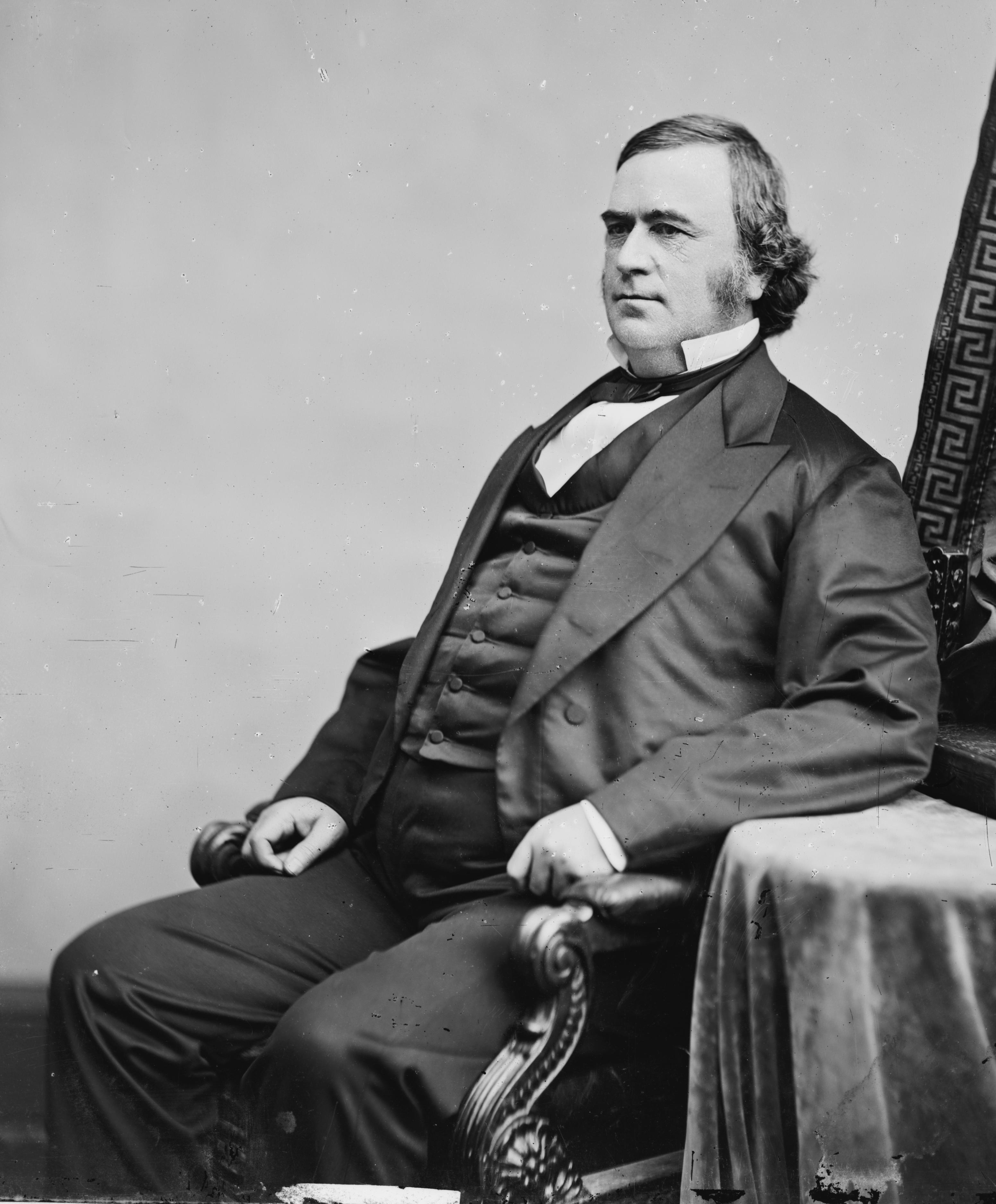 Willard Saulsbury, Sr.. Library of Congress description: "Hon. Willard Saulsbury of Delaware"